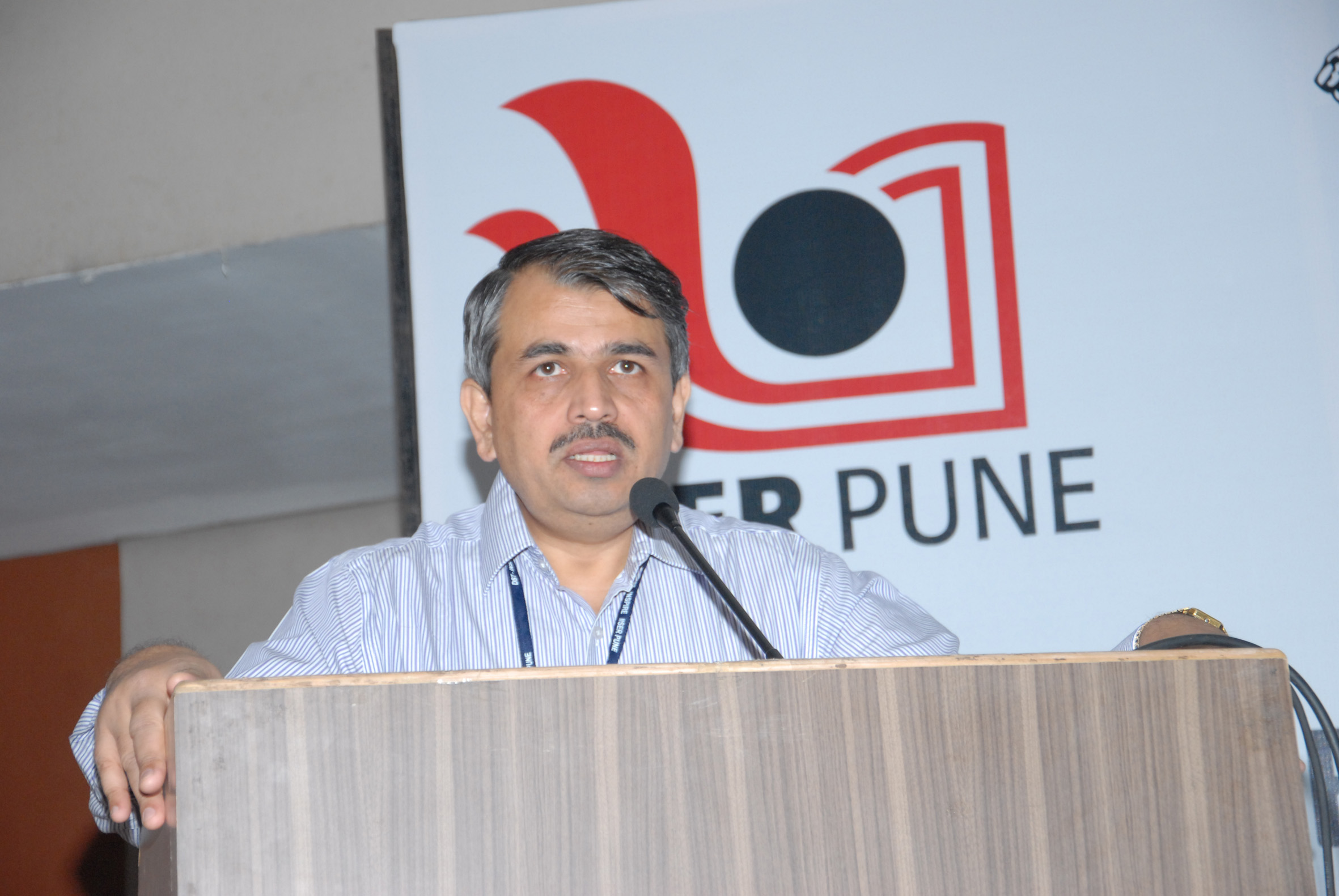 L S Shashidhara in 2012 at IISER,Pune